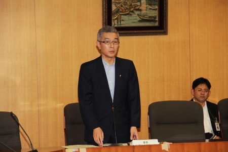 Yoshio Maki, Senior Vice-Minister of Health, Labour and Welfare, attended a meeting at the Central Government Building No.5 in Chiyoda Ward, Tōkyō Metropolis on September 30, 2011.(For terms of use, see 利用規約｜厚生労働省.)